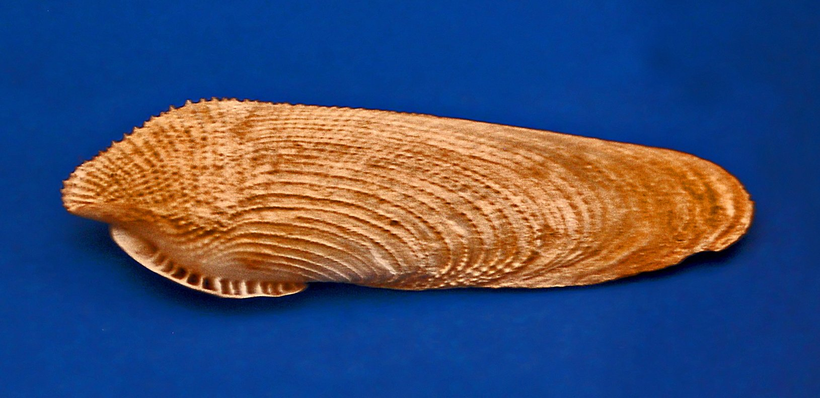 Crop of file in filename